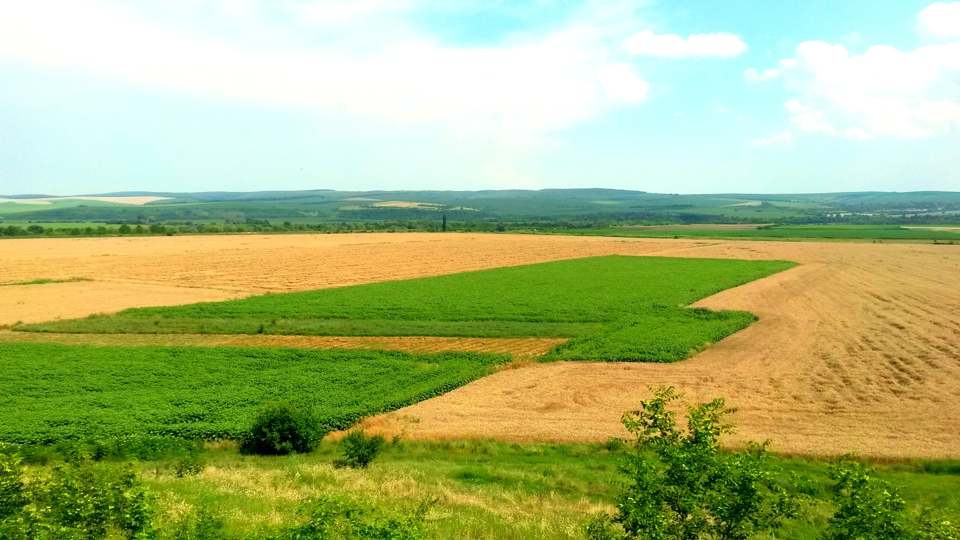 2014-06-24 between Veliko Tarnovo and Rousse.